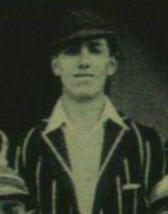 William Rupert Rees-Davis in Eton Cricket uniform